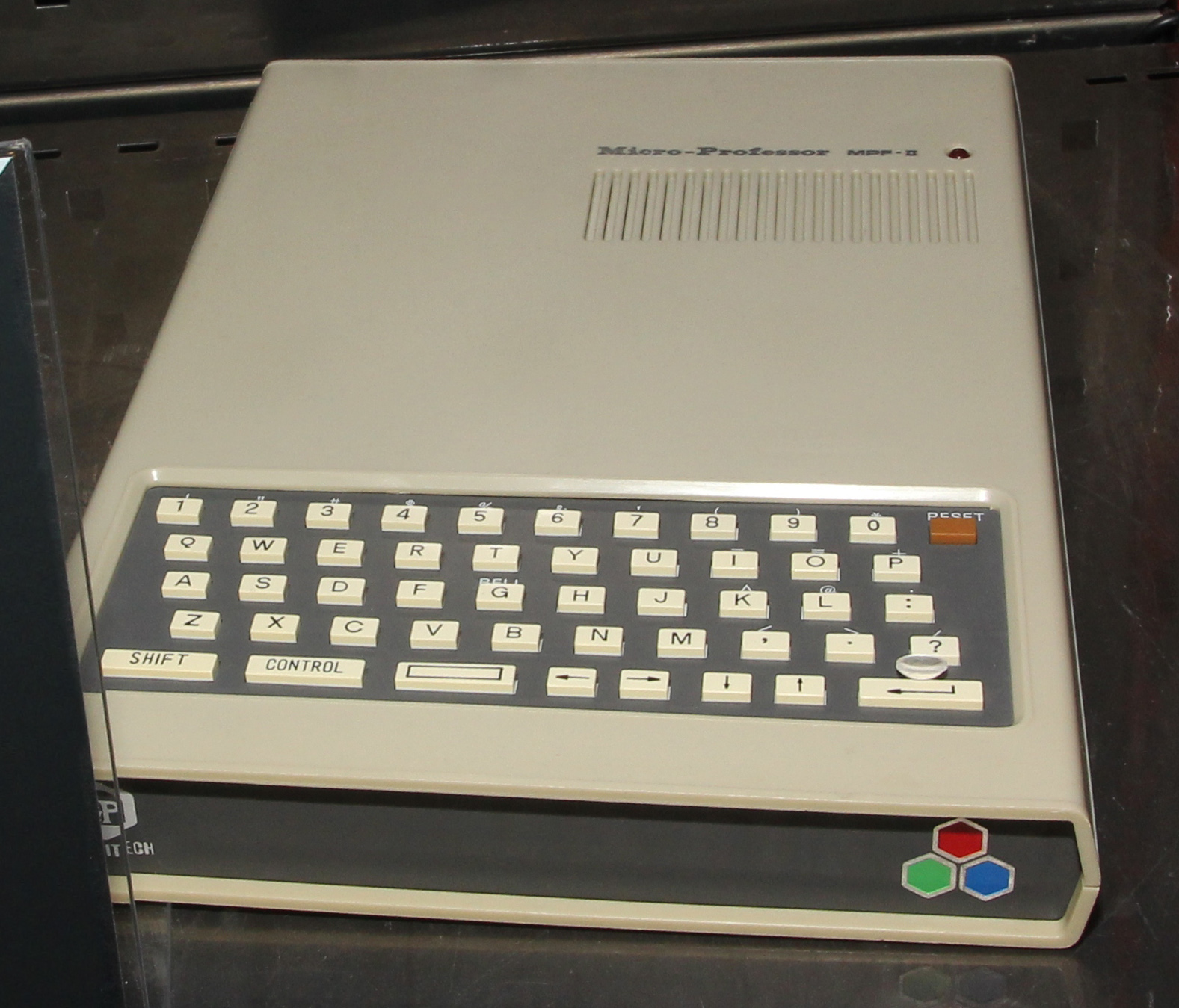 Multitech Microprofessor II computer (Apple II clone) in Helsinki Computer and game console museum.